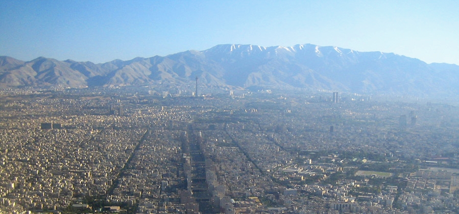 cropped version of Image:Tehran01-006.jpg, which is in the public domain.